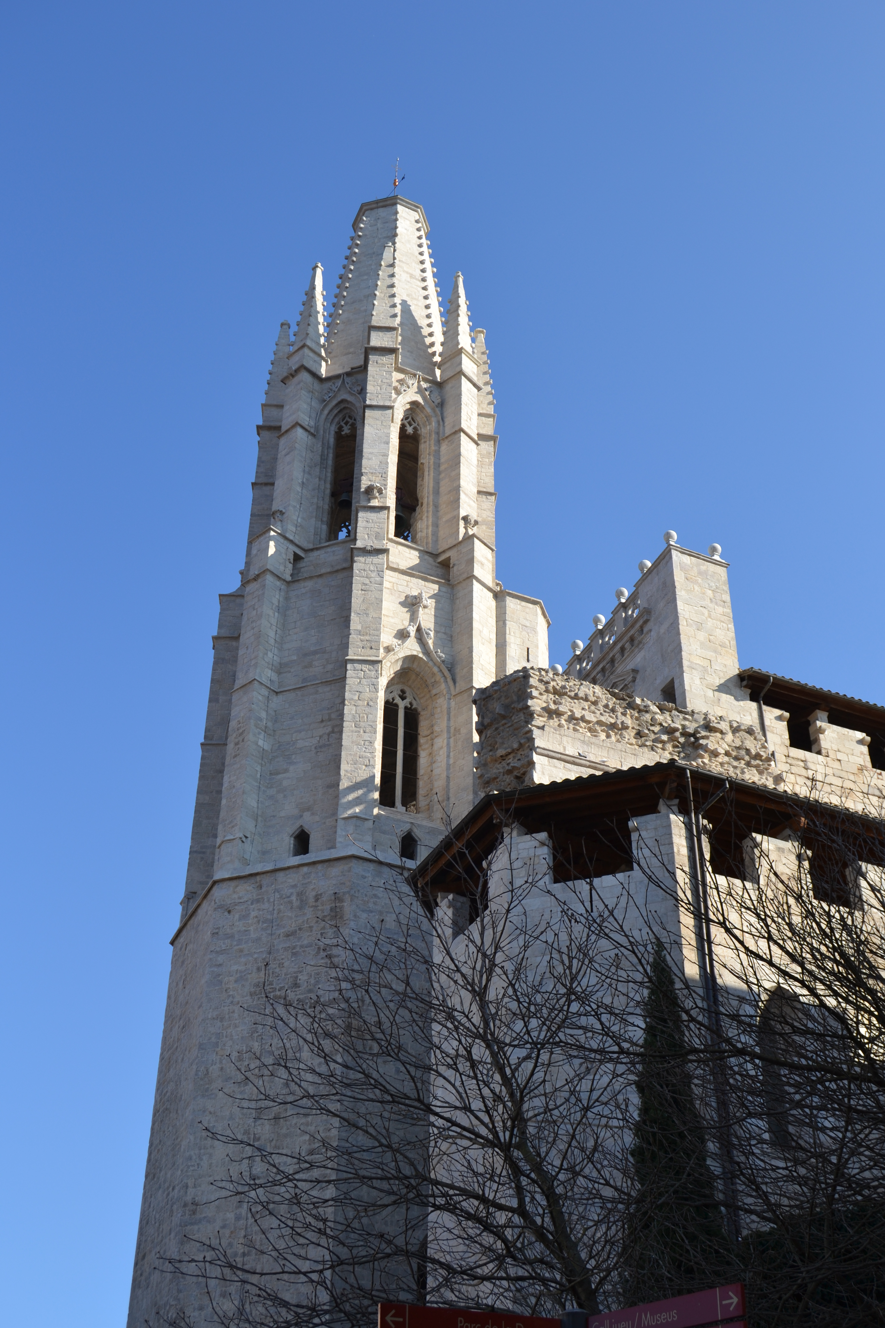 Sant Feliu, a church in Girona (Catalonia, Spain)